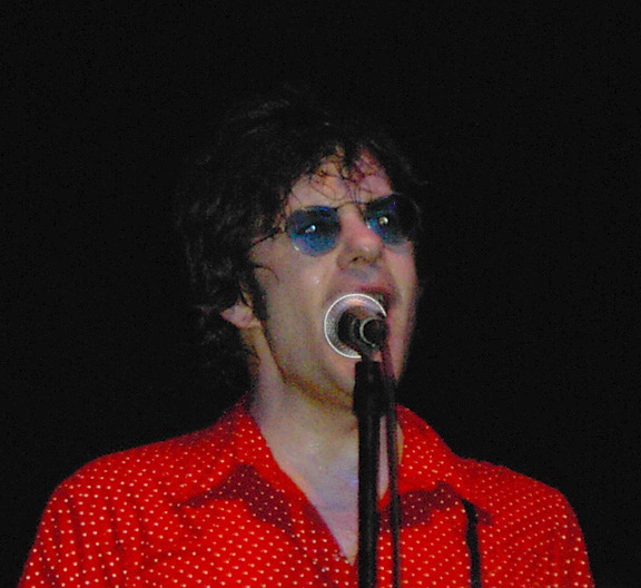 Paul Westerberg during a performance in May 2005